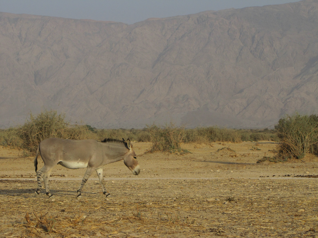 Yotveta Hai-Bar, Wildlife and Plants of Israel